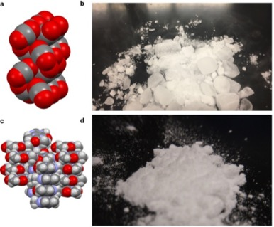 Shows the packing of molecules and visual appearance of carbon dioxide and caffeine.